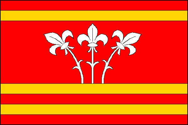 Municipal flag of Nenkovice village, Hodonín District, Czech Republic.